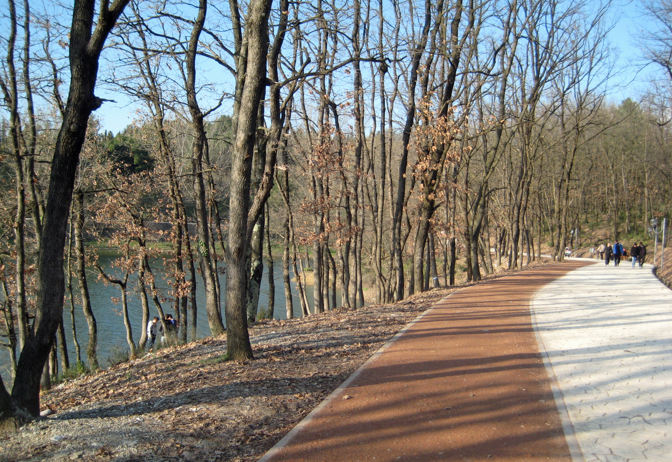 Early spring day in Tirana's Great Park